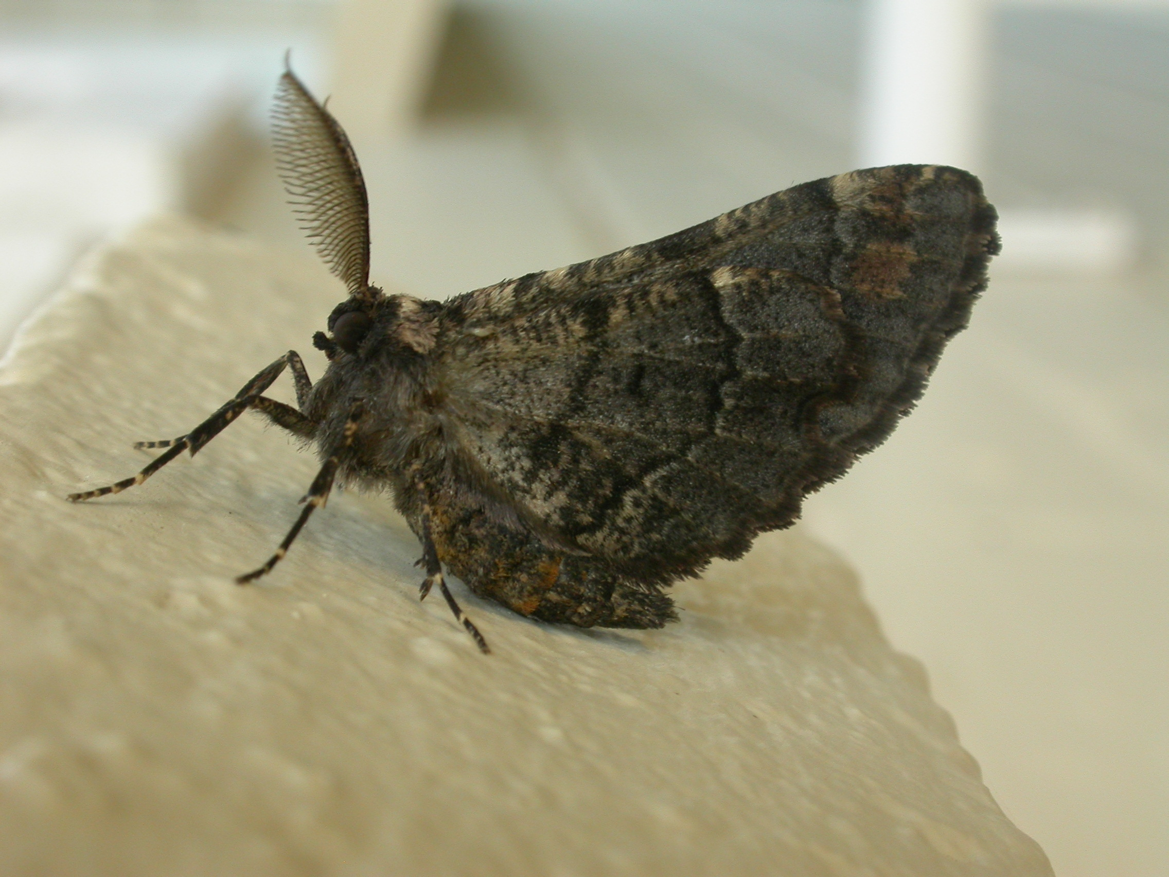 Pholodes sinistraria (Guenée, 1857), male, freshly emerged, Aranda, ACT, 9 September 2008